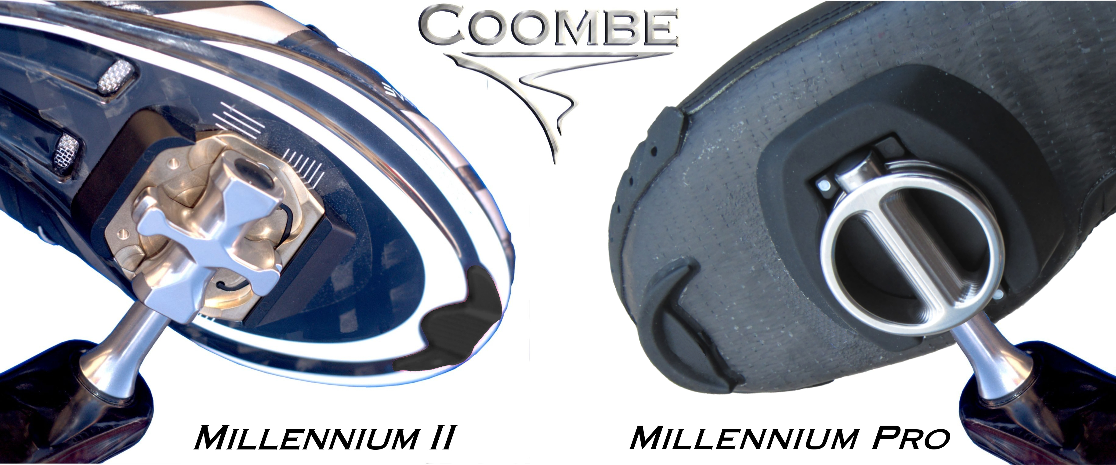 Pedals in production by Coombe 2019.